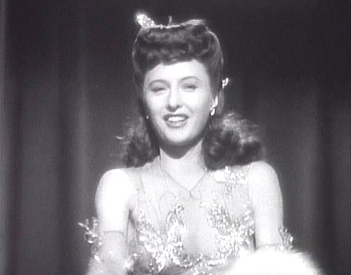 Cropped screenshot of Barbara Stanwyck from the film Lady of Burlesque.